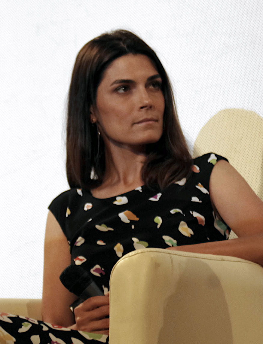 Italian actress Valeria Solarino at 2014 Taormina Film Fest ("TaoFest").